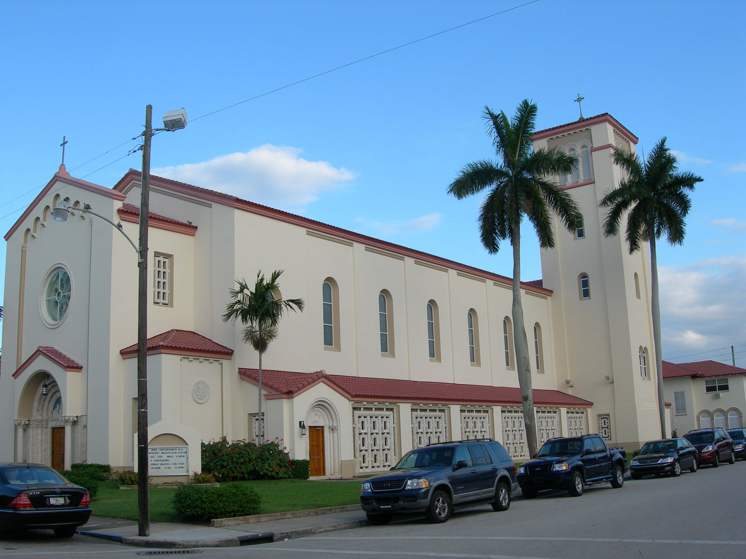 St. Anthony church, Fort Lauderdale, Florida, USA